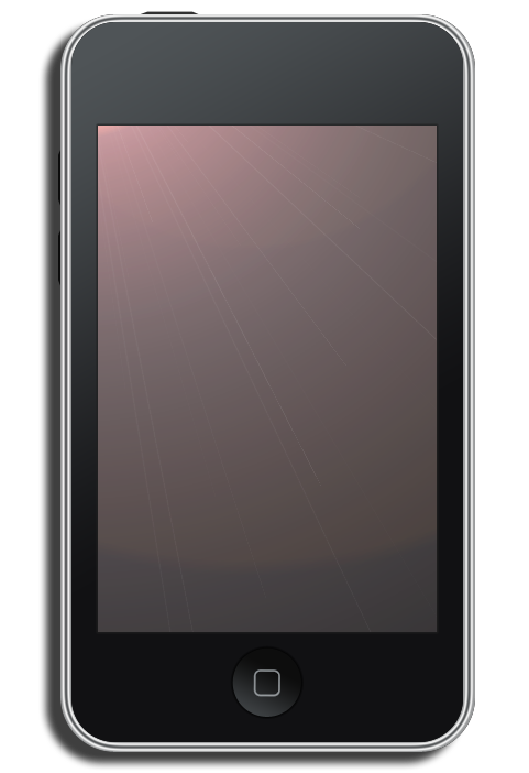 iPod touch 2G